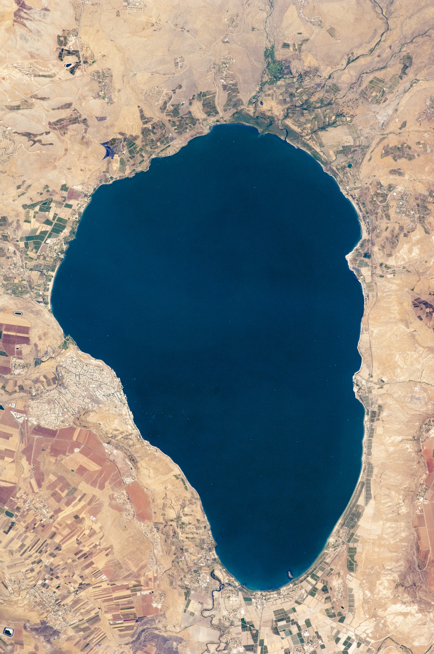 Israel’s largest freshwater lake, Lake Tiberias, is also known as the Sea of Tiberias, Lake of Gennesaret, Lake Kinneret, and the Sea of Galilee. The lake measures just more than 21 kilometres north-south, and it is only 43 meters deep. The lake is fed partly by underground springs related to the Jordan sector of the Great Rift Valley, but most of its water comes from the Jordan River, which enters from the north. The river’s winding course can be seen draining the south end of the lake at image bottom. Angular green and brown field patterns clothe most hillsides in this arid landscape. Bright roof tops are the hallmark of several villages in the area. The largest grouping of bright roofs and city blocks indicates the location of Tiberias (named for the Roman Emperor Tiberius), visible at image left on the south-western shore of the lake. ISS Crew Earth Observations: ISS020-E-31066IdentificationMissionISS020 (Expedition 20)RollEFrame31066Country or Geographic NameISRAELFeaturesSEA OF GALILEE, TIBERIAS, AGR.Center Point Latitude32.8° NCenter Point Longitude35.6° ECameraCamera Tilt27°Camera Focal Length400 mmCameraNikon D2XsFilm4288 x 2848 pixel CMOS sensor, RGBG imager color filter.QualityPercentage of Cloud Cover0-10%Nadir What is Nadir?Date2009-08-15Time10:21:01Nadir Point Latitude31.3° NNadir Point Longitude35.0° ENadir to Photo Center DirectionNorthSun Azimuth208°Spacecraft Altitude189 nautical miles (350 km)Sun Elevation Angle71°Orbit Number1528